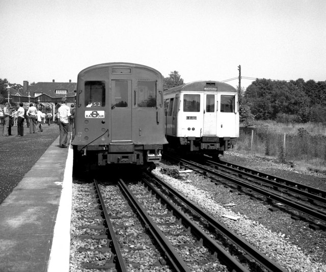 Watford station (Metropolitan Line)